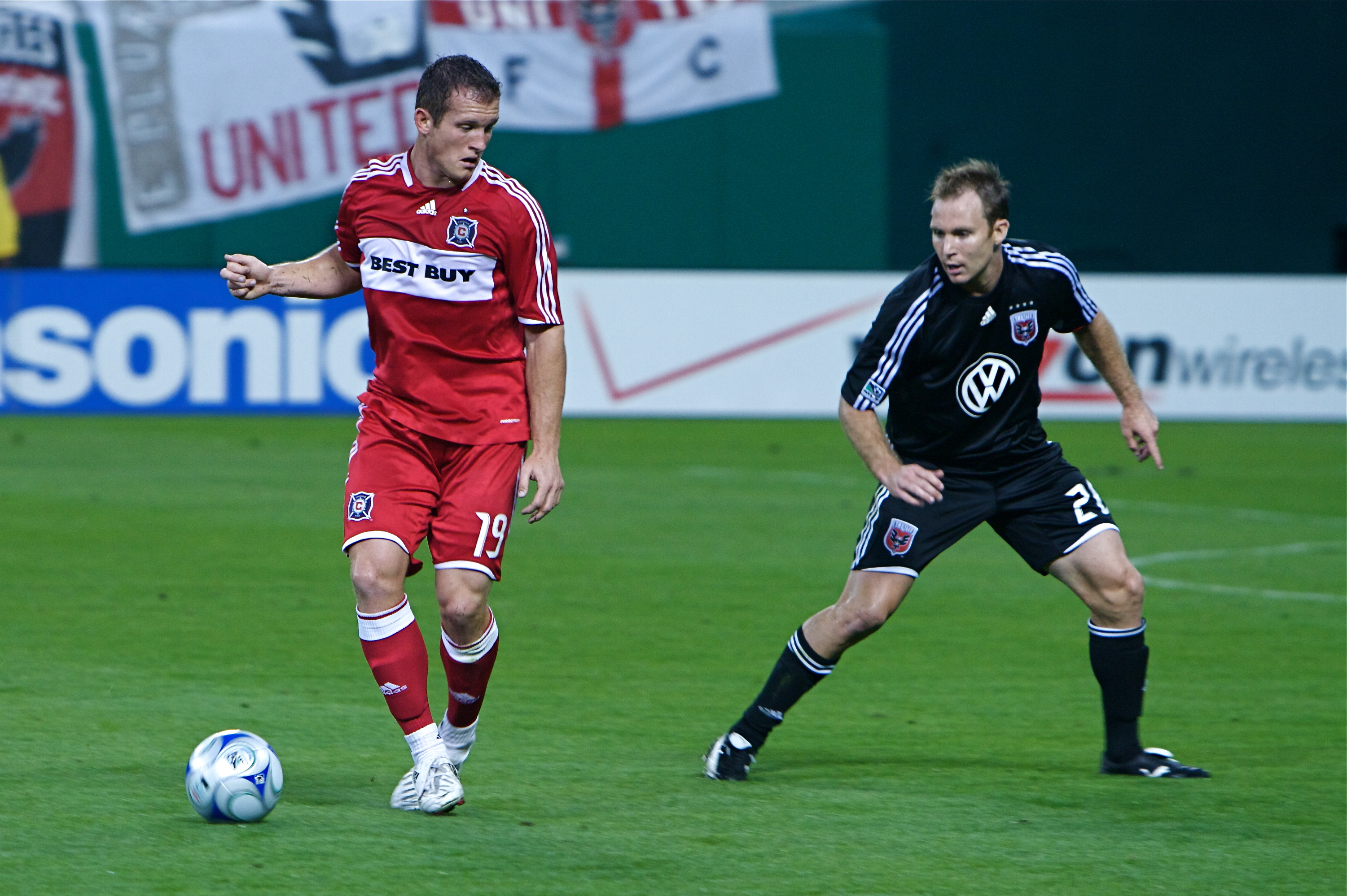 DC United took on the Chicago Fire at RFK stadium on May 8, 2008. The fire beat the home team 2-0.